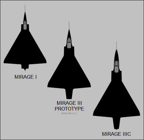 Plan-view silhouettes of the Dassault Mirage I Mirage III prototype and Mirage IIIC